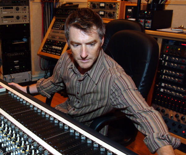 Producer Wally Gagel.